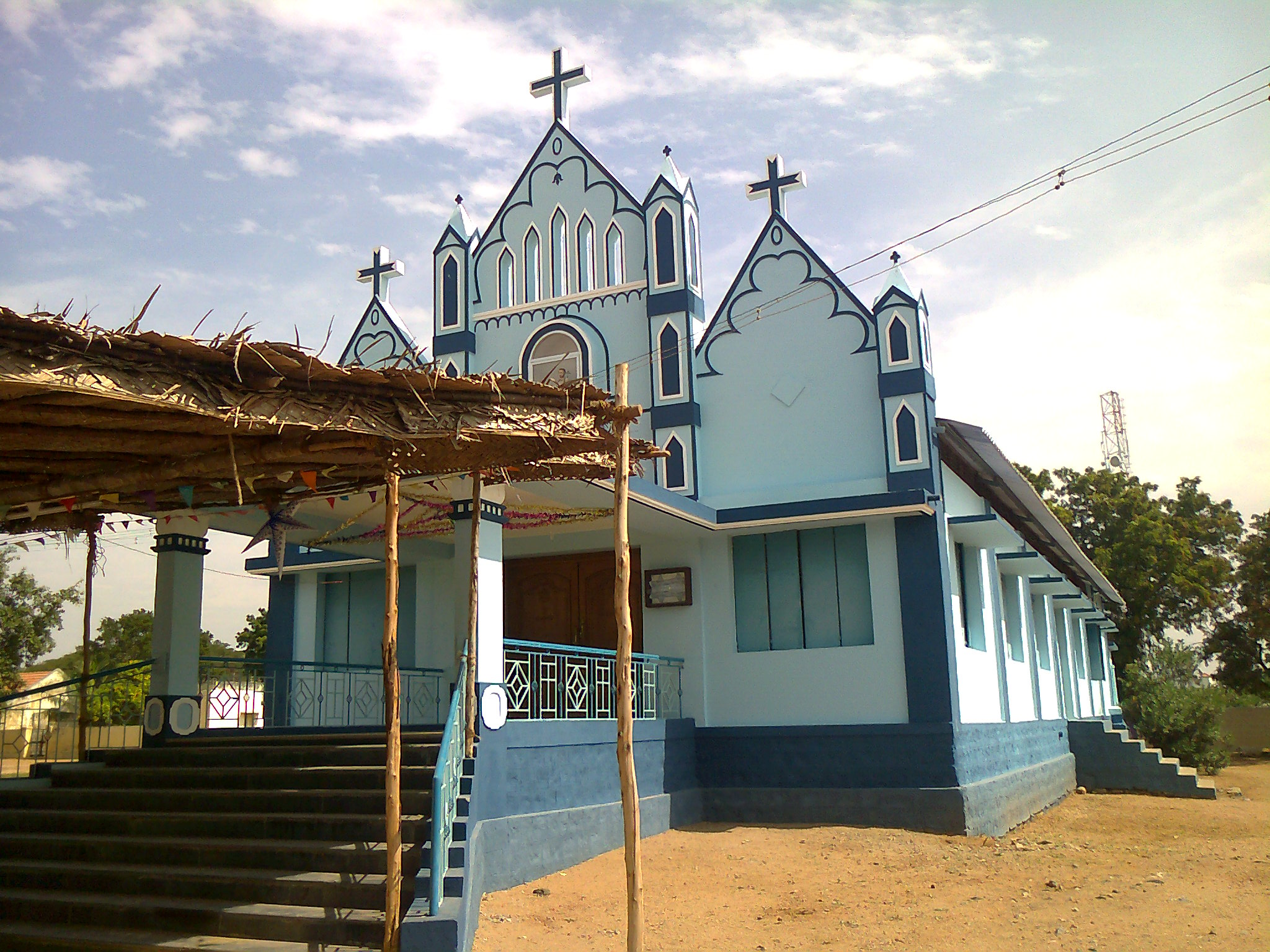 St.Xavier Church Aravakurichi